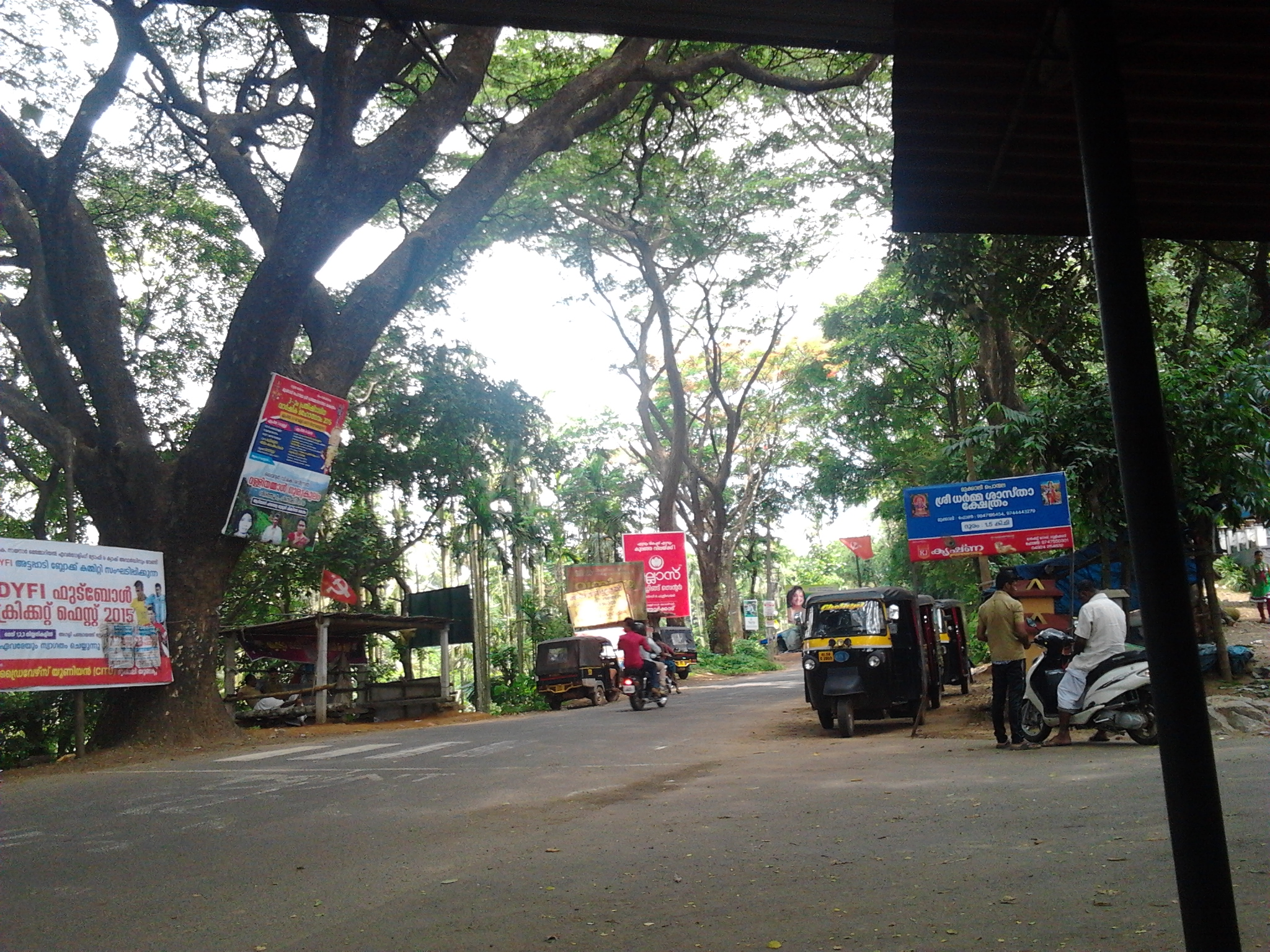 The junction before the Silent Valley